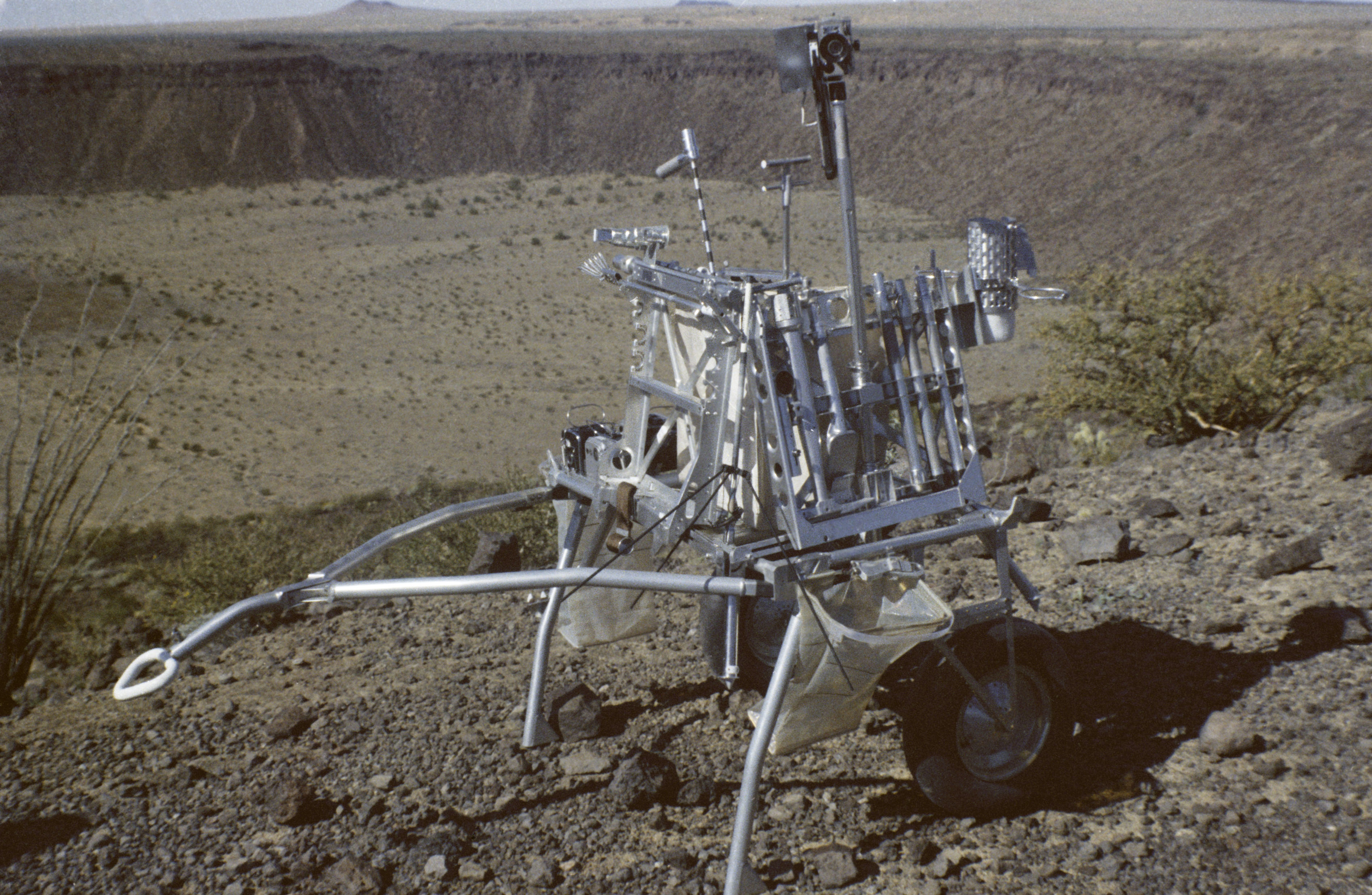 A prototype of the modular equipment transporter (MET), nicknamed the "Rickshaw" after its shape and method of propulsion. This equipment was used by the Apollo 14 astronauts during their geological and lunar surface simulation training in the Pinacate volcanic area of northwestern Sonora, Mexico. The Apollo 14 crew will be the first one to use the MET. It will be a portable workbench with a place for the lunar hand tools and their carrier, three cameras, two sample container bags, a special environmental sample container, spare film magazines, and a lunar surface Penetrometer.